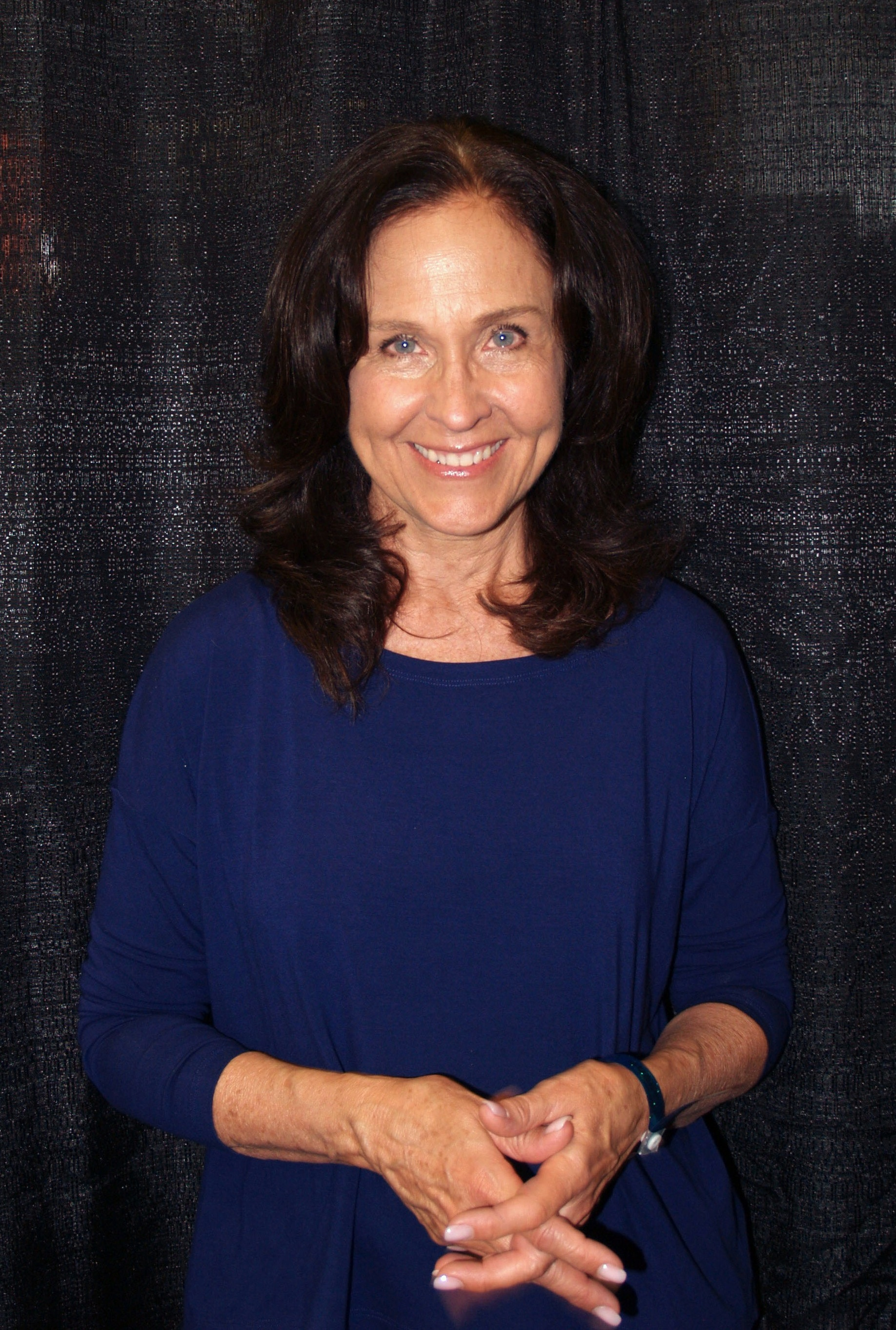 Actress Erin Gray at the 2013 Wizard World New York Experience Comic Con at Pier 36 in Manhattan, June 28, 2013. This photo was created by Luigi Novi. It is not in the public domain, and use of this file outside of the licensing terms is a copyright violation.